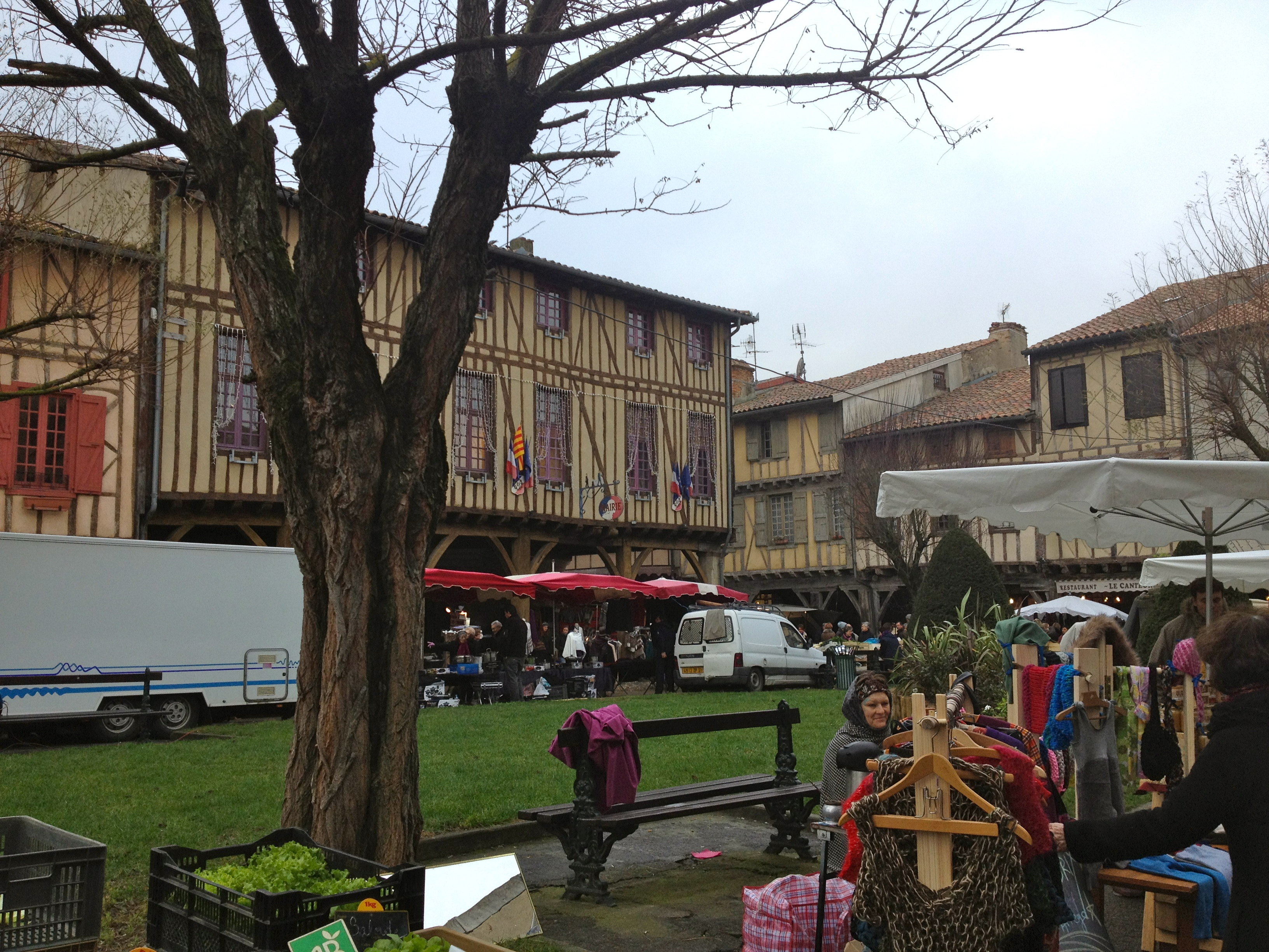 Mirepoix, Ariège - A Monday market day in the central square.